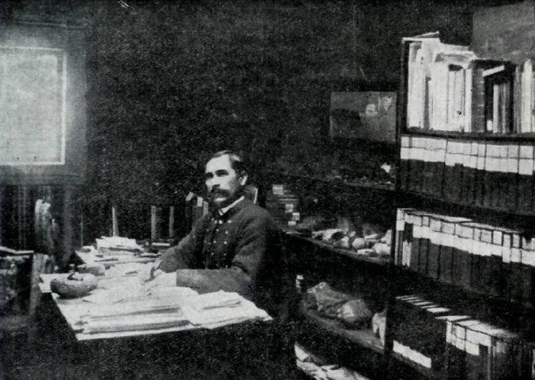 Jóannes Patursson in his office in Kirkjubøur, Faroe Islands.